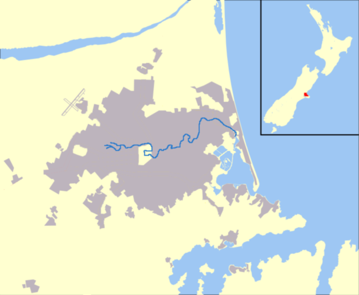 Map showing the location of the Avon River, Christchurch, New Zealand